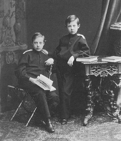 Grand Dukes Constantine and Dimitri Constantinovich